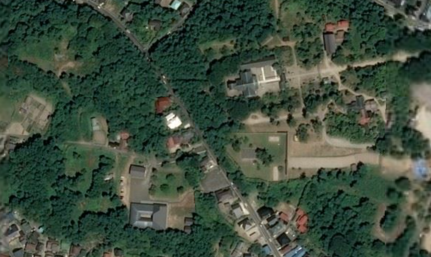 Satellite view